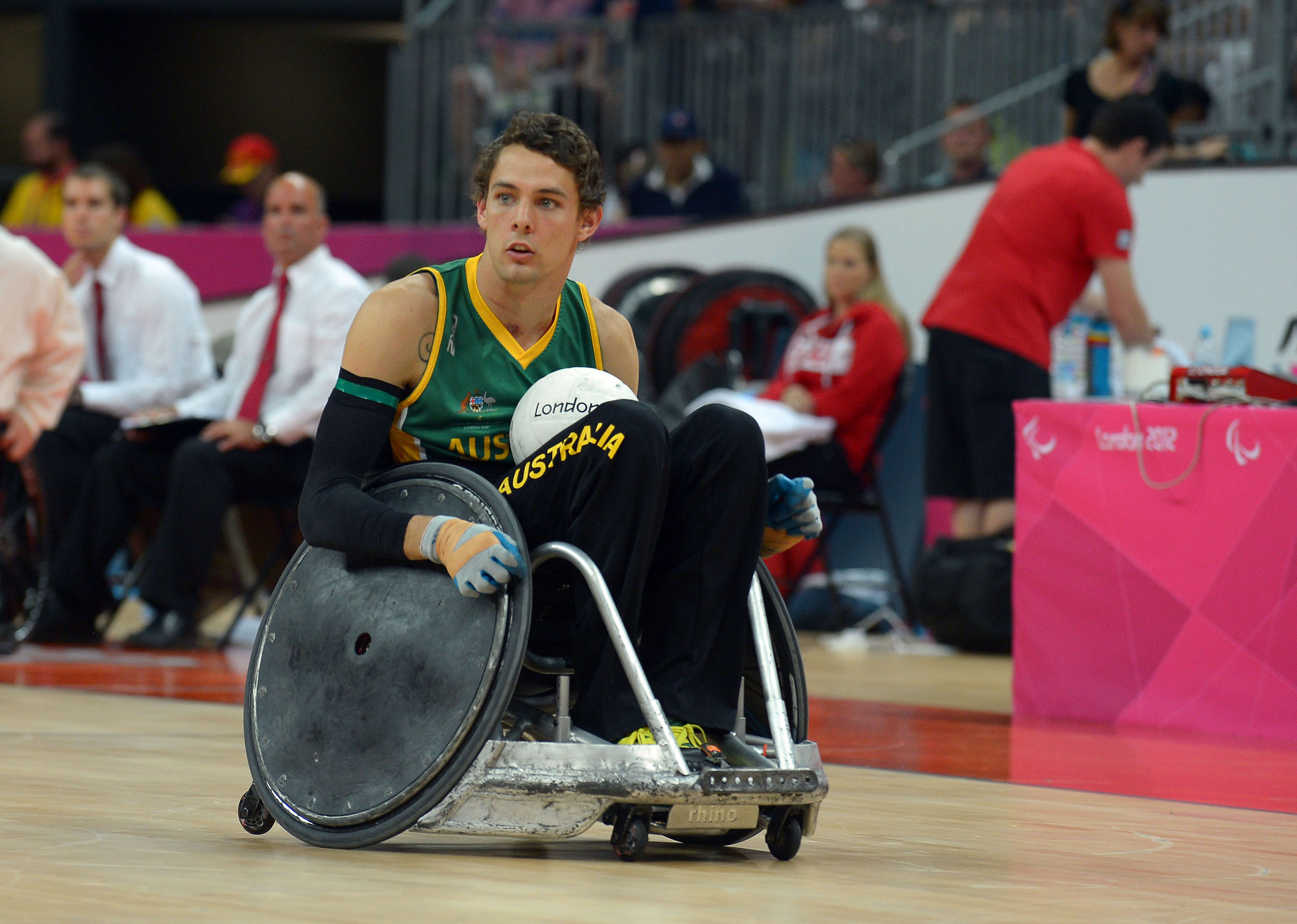 Photograph of Australian Paralympic team member Cody Meakin at the 2012 Summer Paralympic Games in London